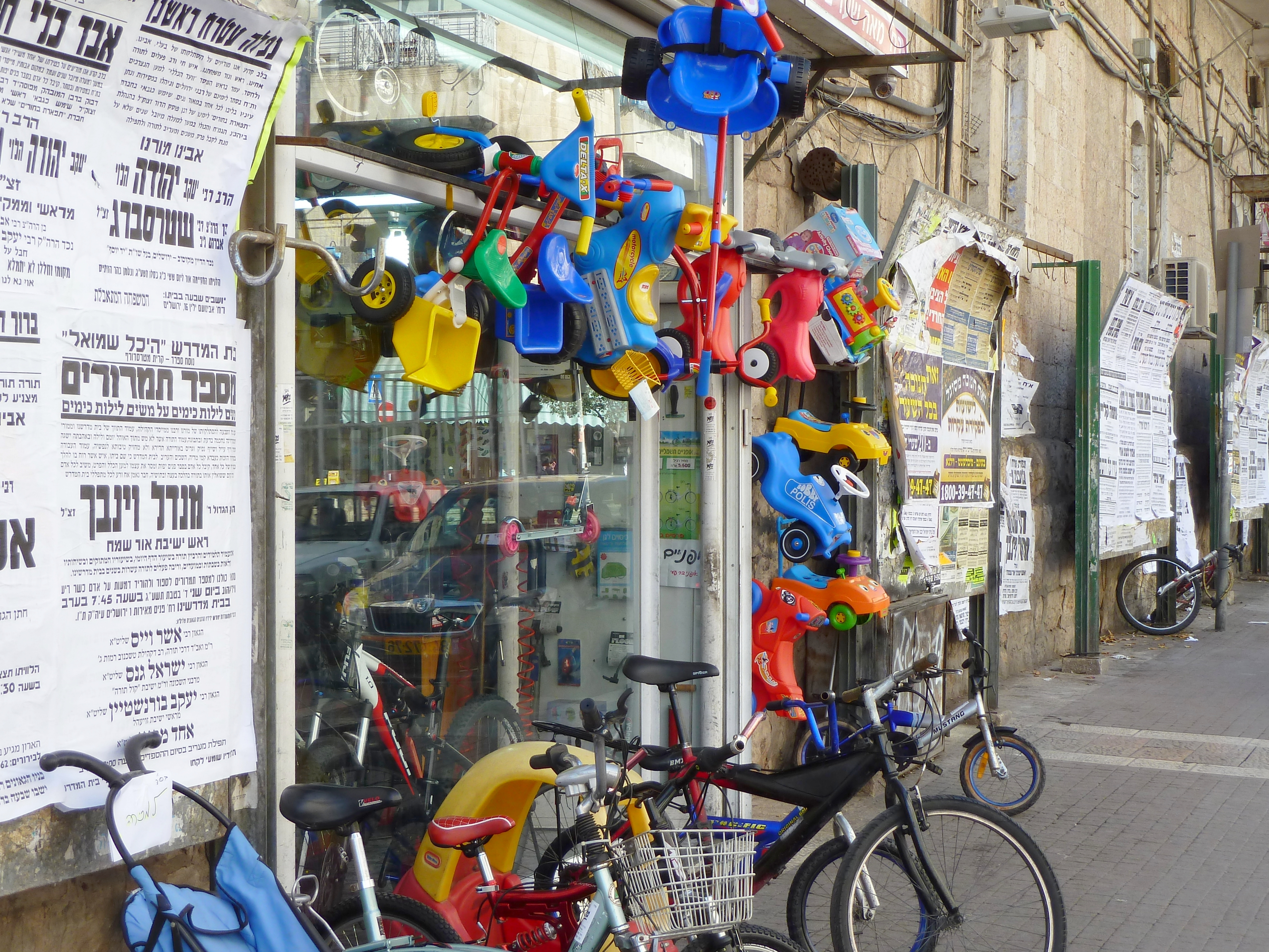 Jerusalem Mea Shearim street, colorful toys shop